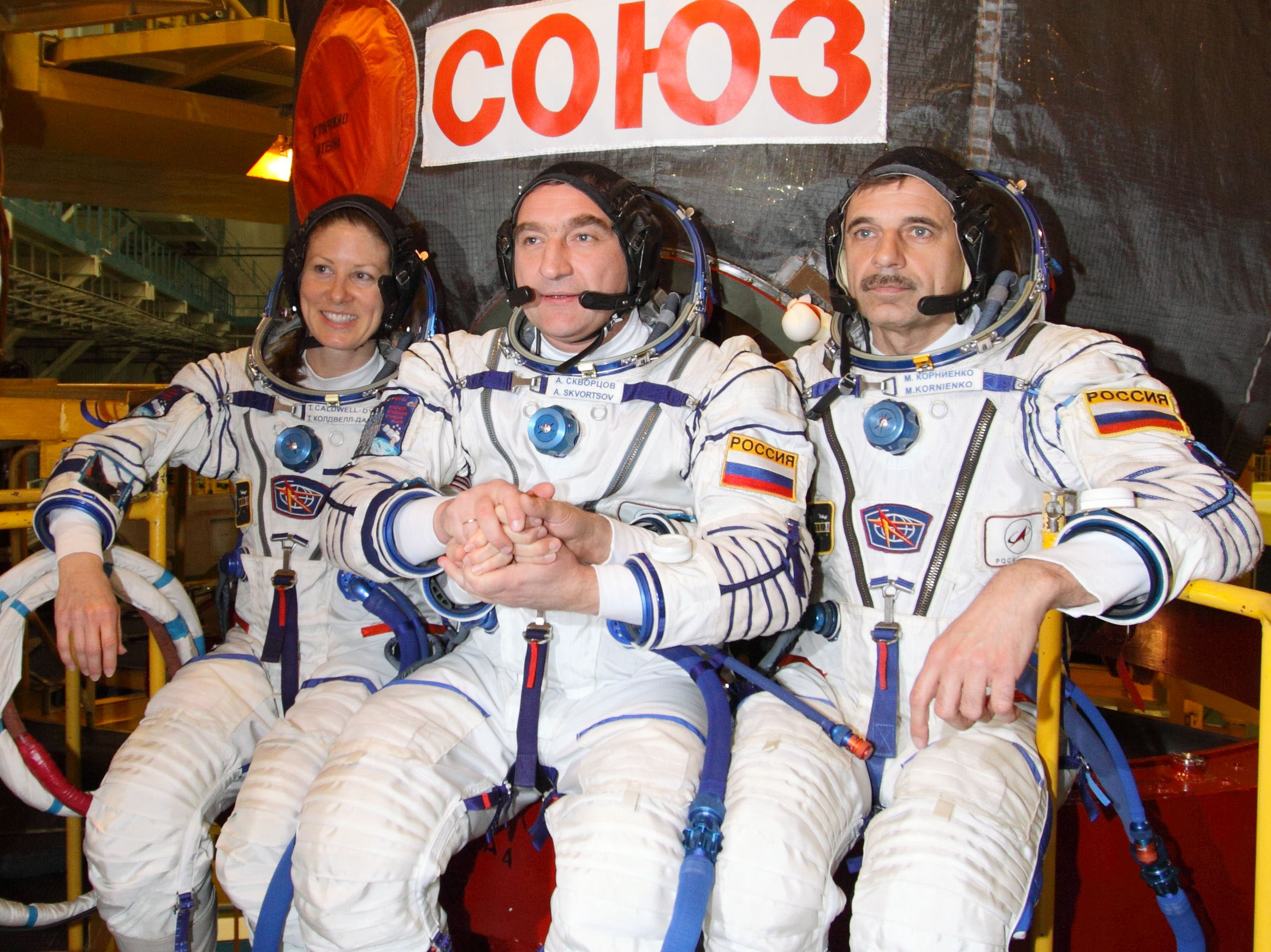 At the Baikonur Cosmodrome in Kazakhstan, NASA astronaut Tracy Caldwell Dyson (left), Expedition 23 flight engineer; along with Russian cosmonauts Alexander Skvortsov (center), Soyuz commander and flight engineer; and Mikhail Kornienko, flight engineer, pose for pictures in front of their Soyuz TMA-18 spacecraft March 22, 2010 following a fit check dress rehearsal that will lead to their launch on April 2 bound for the International Space Station.